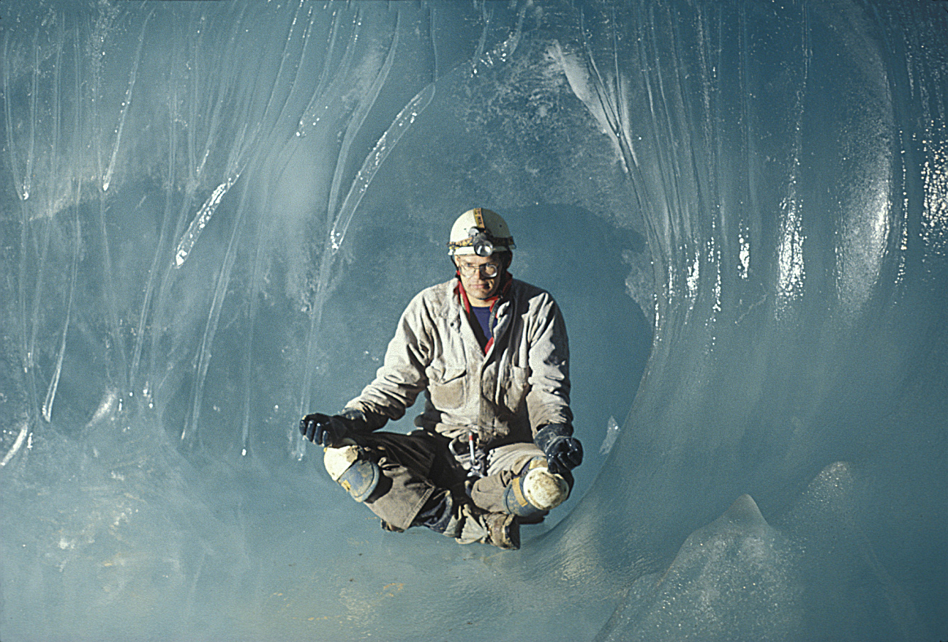 Ponded water ice in Serendipity, a limestone ice cave in the Canadian Rockies. Photo by Ian McKenzie, Alberta Speleological Society.